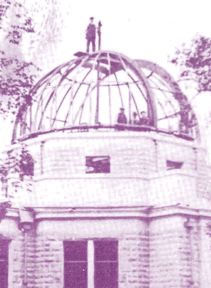 Building of present mills observatory